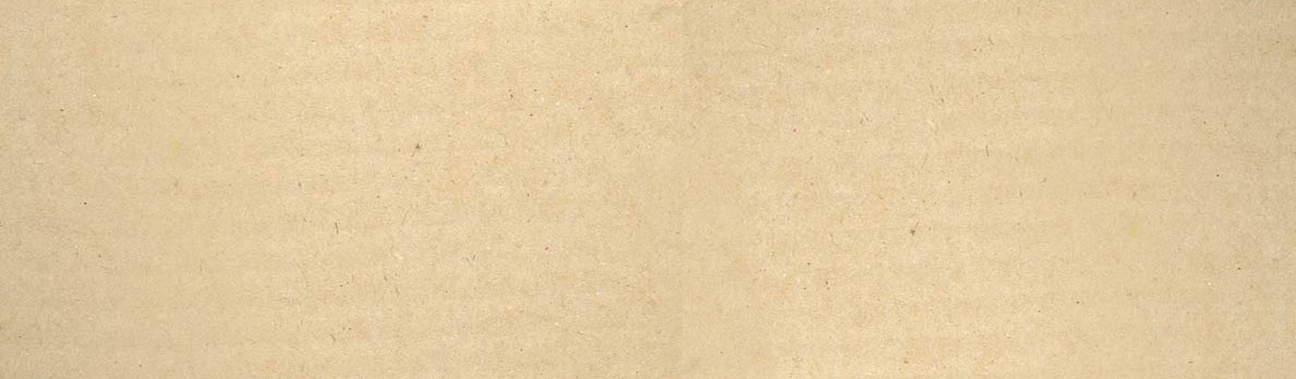 kraft paper